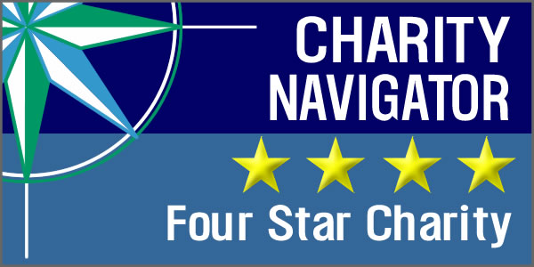 Charity Navigator 4 Star Logo